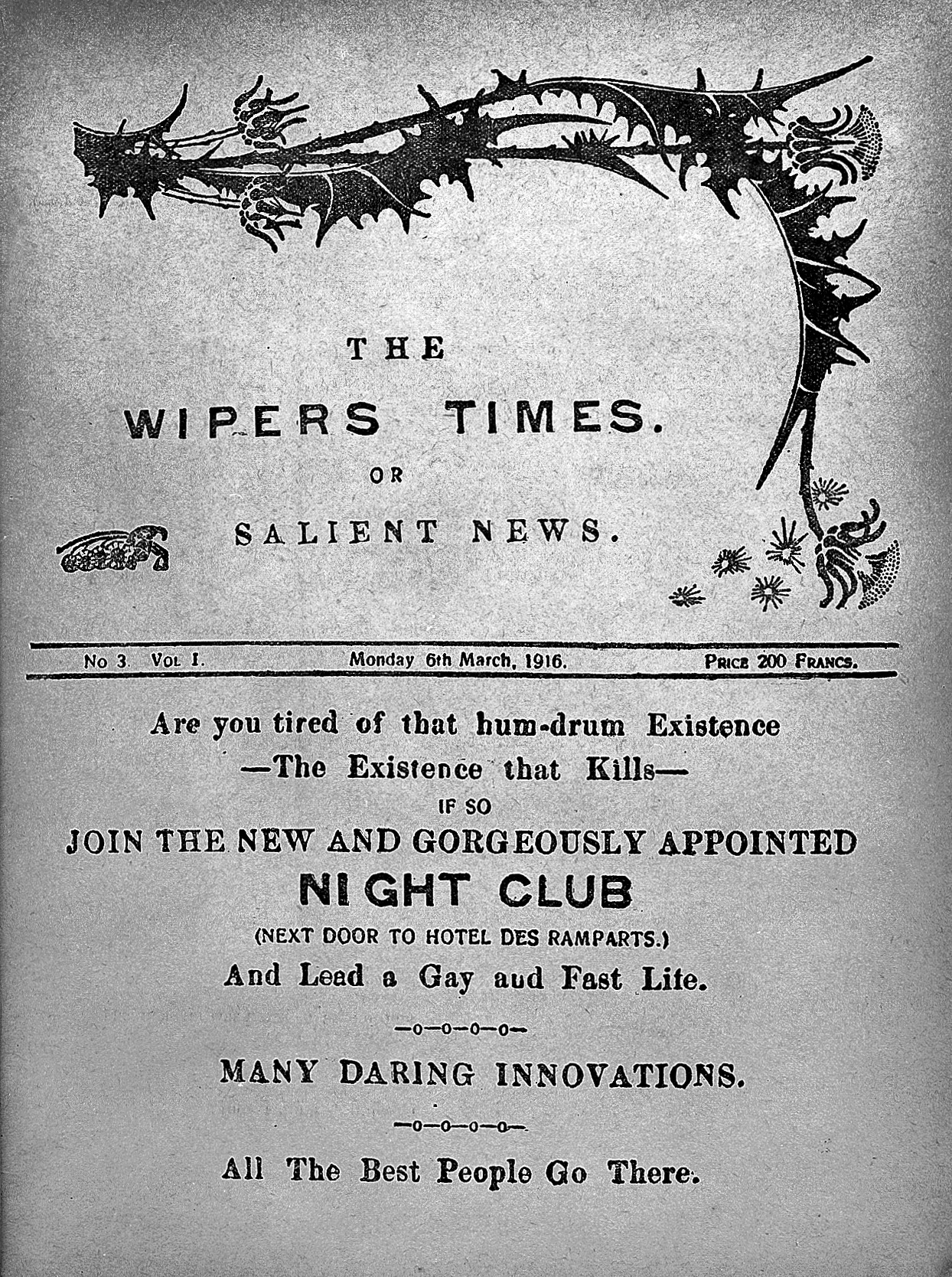 Archives and Manuscripts: RAMC 479 The Wipers Times, 6th March 1916; Herbert Jenkins Ltd., London. Issue cover Archives & Manuscripts Keywords: the wipers times; march 1916; cover; ramc 479